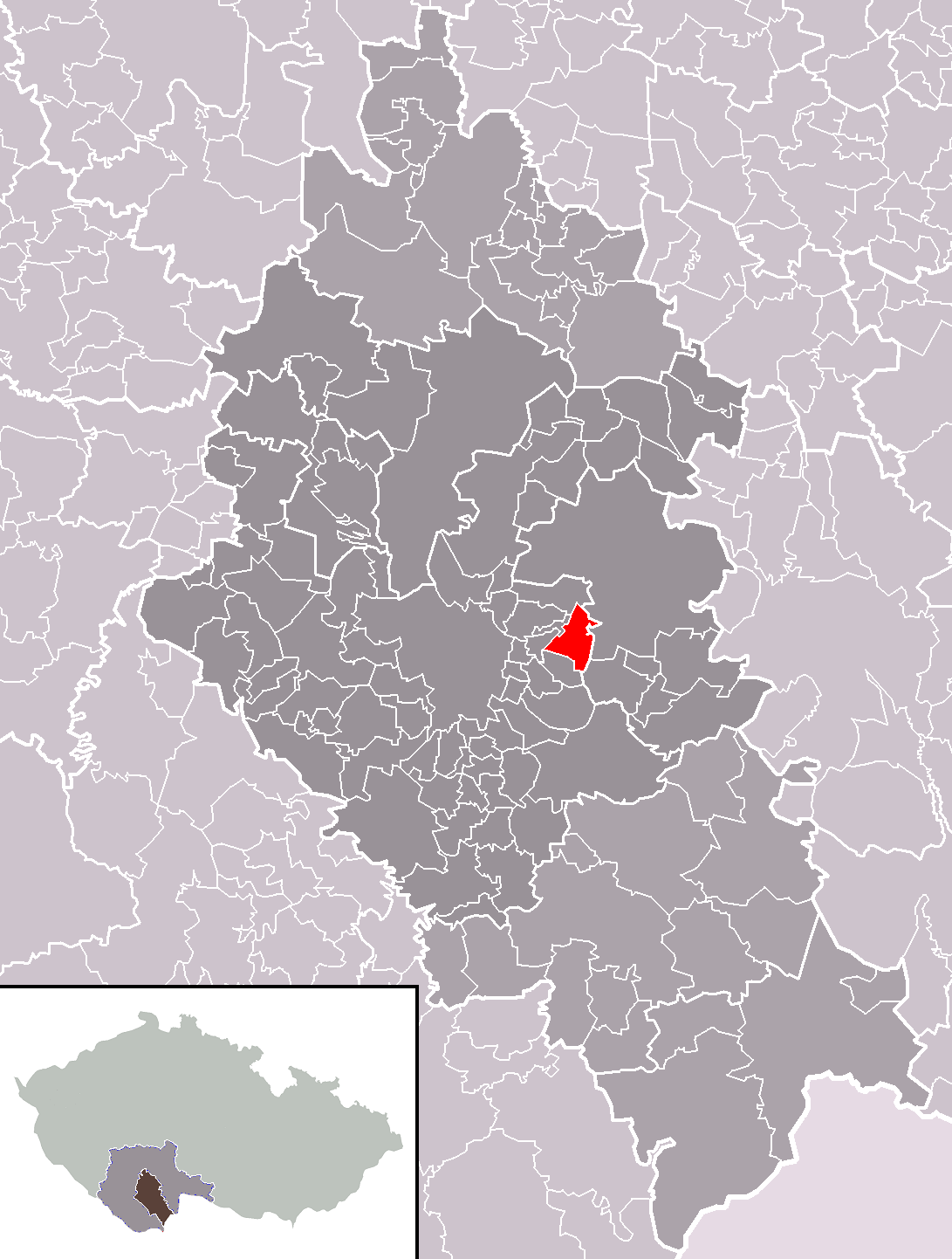 Location of Jivno municipality within České Budějovice District and administrative area of České Budějovice as a Municipality with Extended Competence.